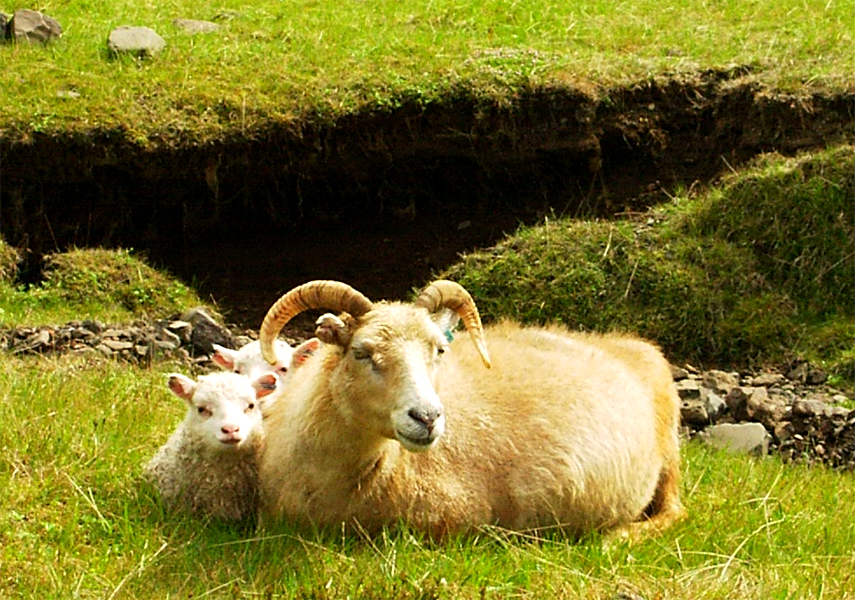 Icelandic Sheep.